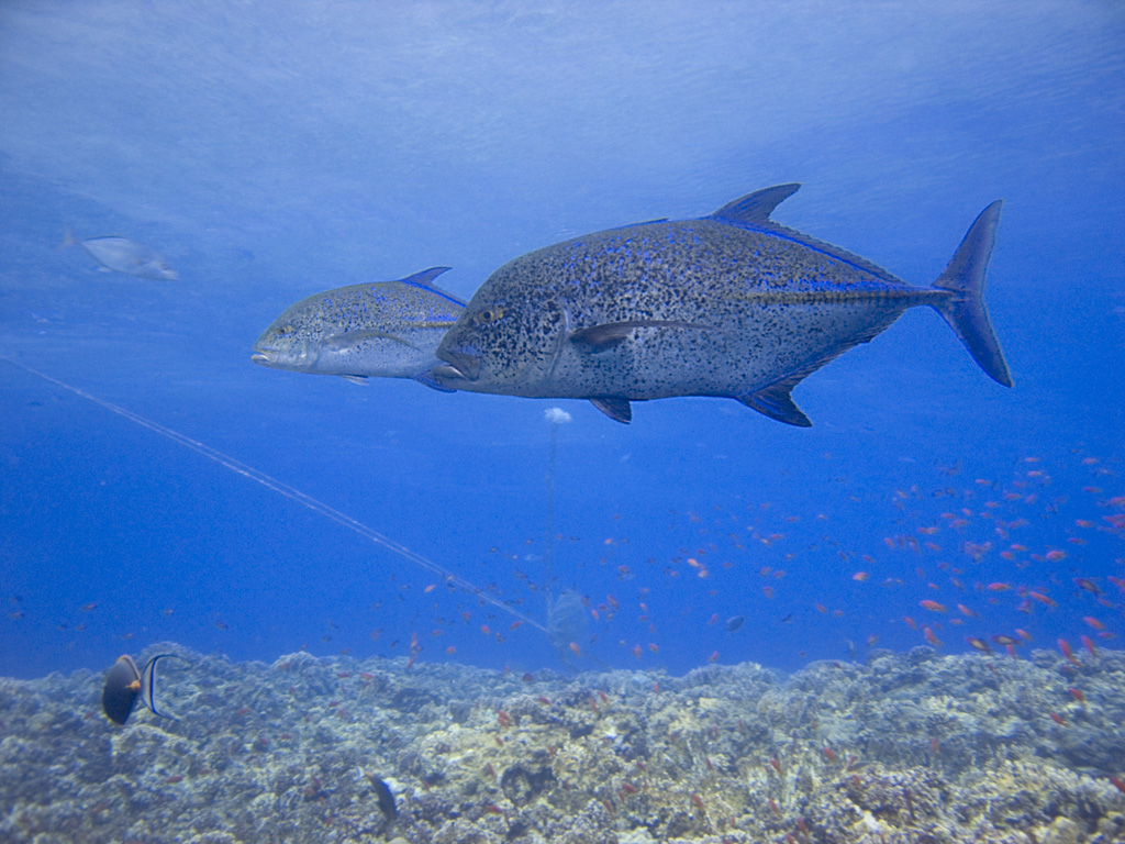 Flickr tool output Description bluefin trevally Date28 June 2006, 06:50Sourcebluefin trevallyAuthorjon hanson from London Licensing